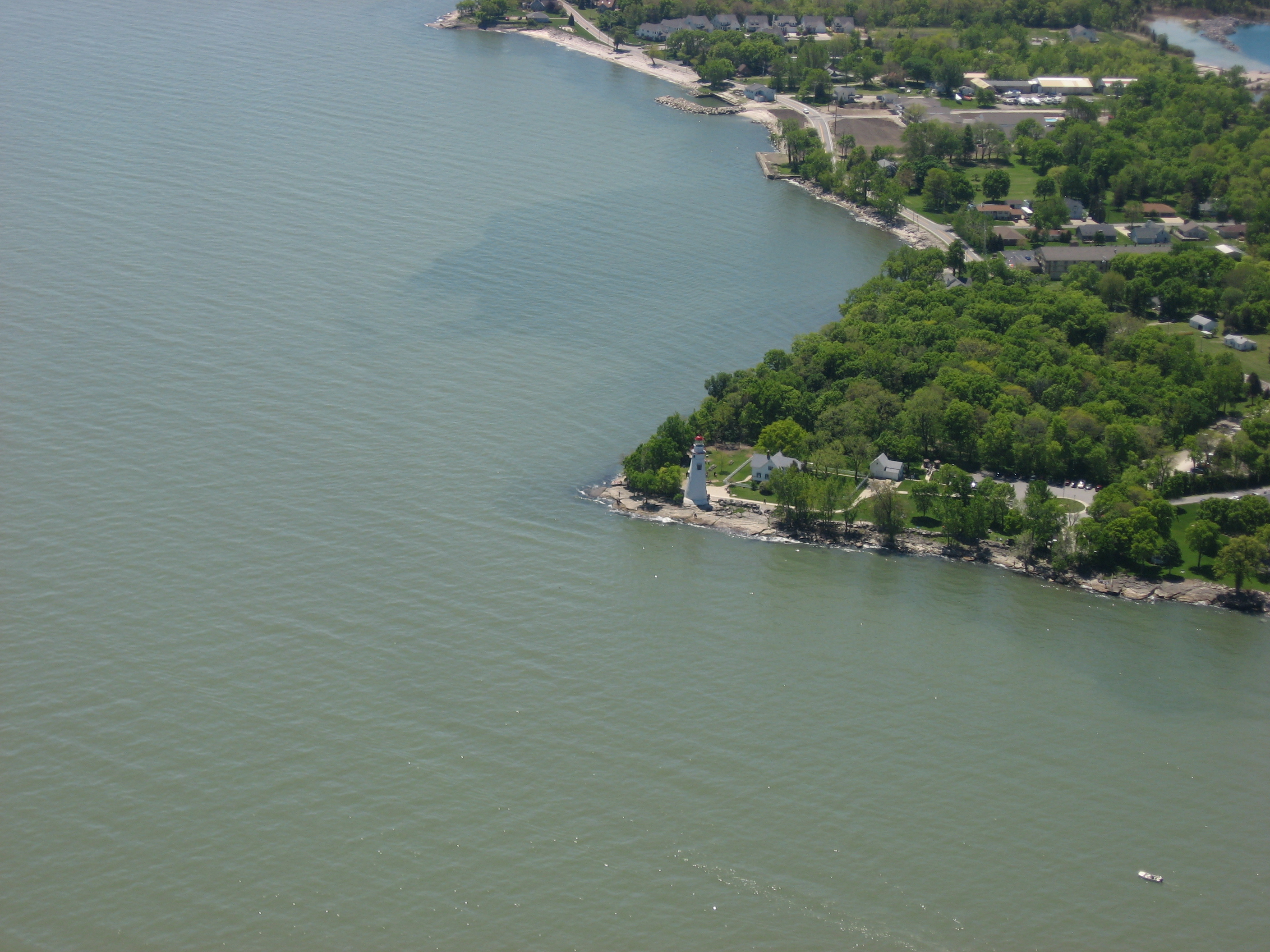 Aerial view of the Lake Erie shoreline of Marblehead, a village in Ottawa County, Ohio, United States, focusing on its prominent lighthouse. Picture taken from a Diamond Eclipse light airplane at an altitude of 1,700 feet MSL and a bearing of approximately 187º.